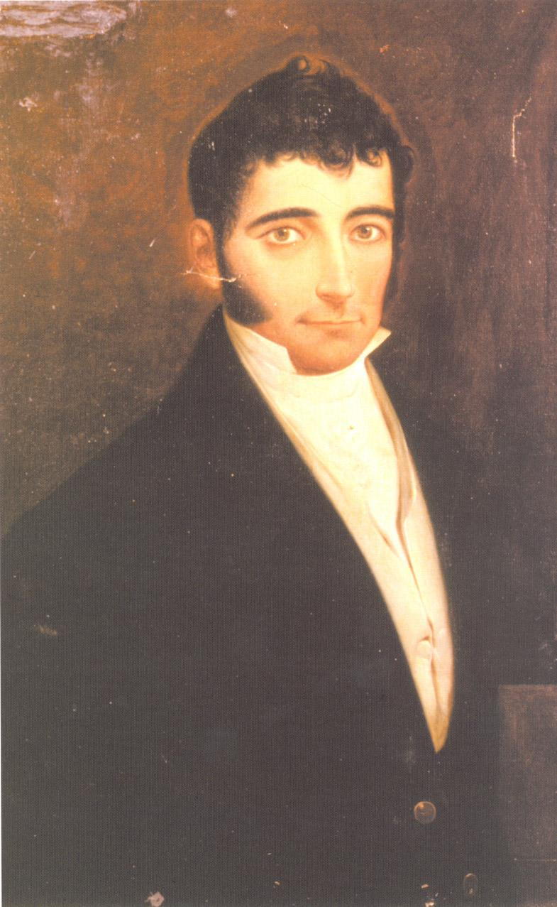 Ioannis Papafis (1792 – 1886) Greek Macedonian Merchant Prince. Ιωάννης Παπάφης